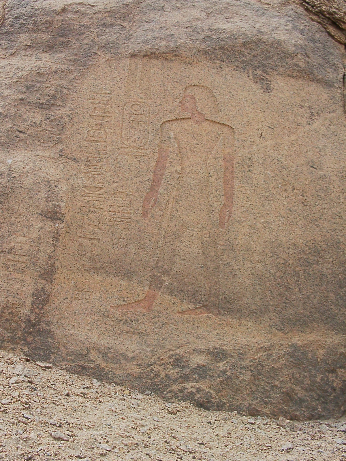 18. dynasty relief of a standing man with Amenophis II's cartouche. Locals state he is Senenmut, but it is not proven. Indeed it shows the king's son Khaemwaset, a few scolars regard him as a son of king Amenhotep II; compare: Gasse, Rondot: Les inscriptions de Sehel, Cairo 2007, 144-145, no. 250